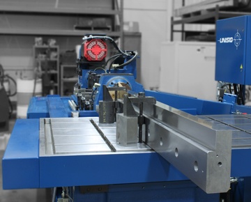 A gundrilling machine with a table drills a deep, small diameter hole in an angled piece of alloy steel.